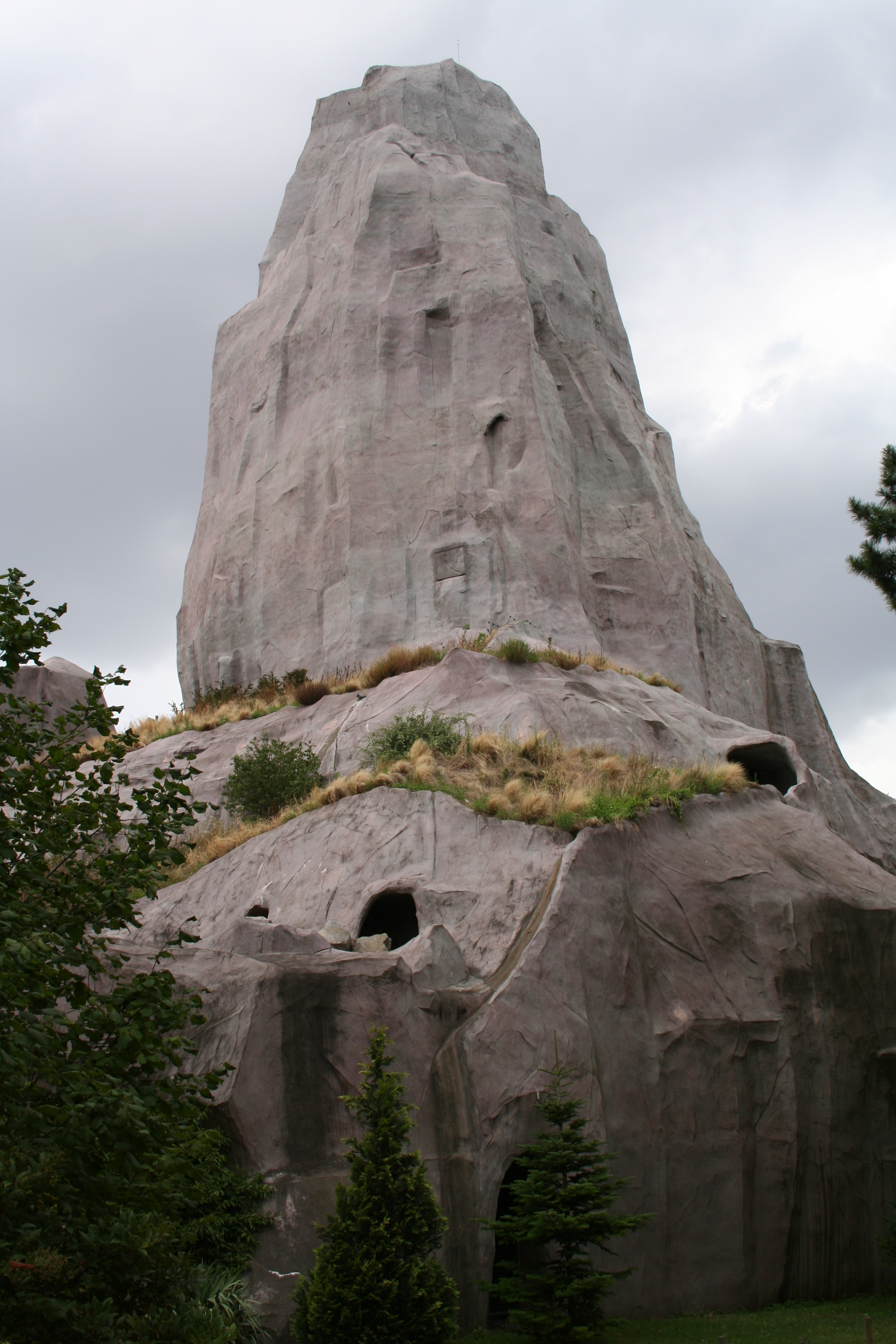 Vincennes zoological garden (Paris, France).